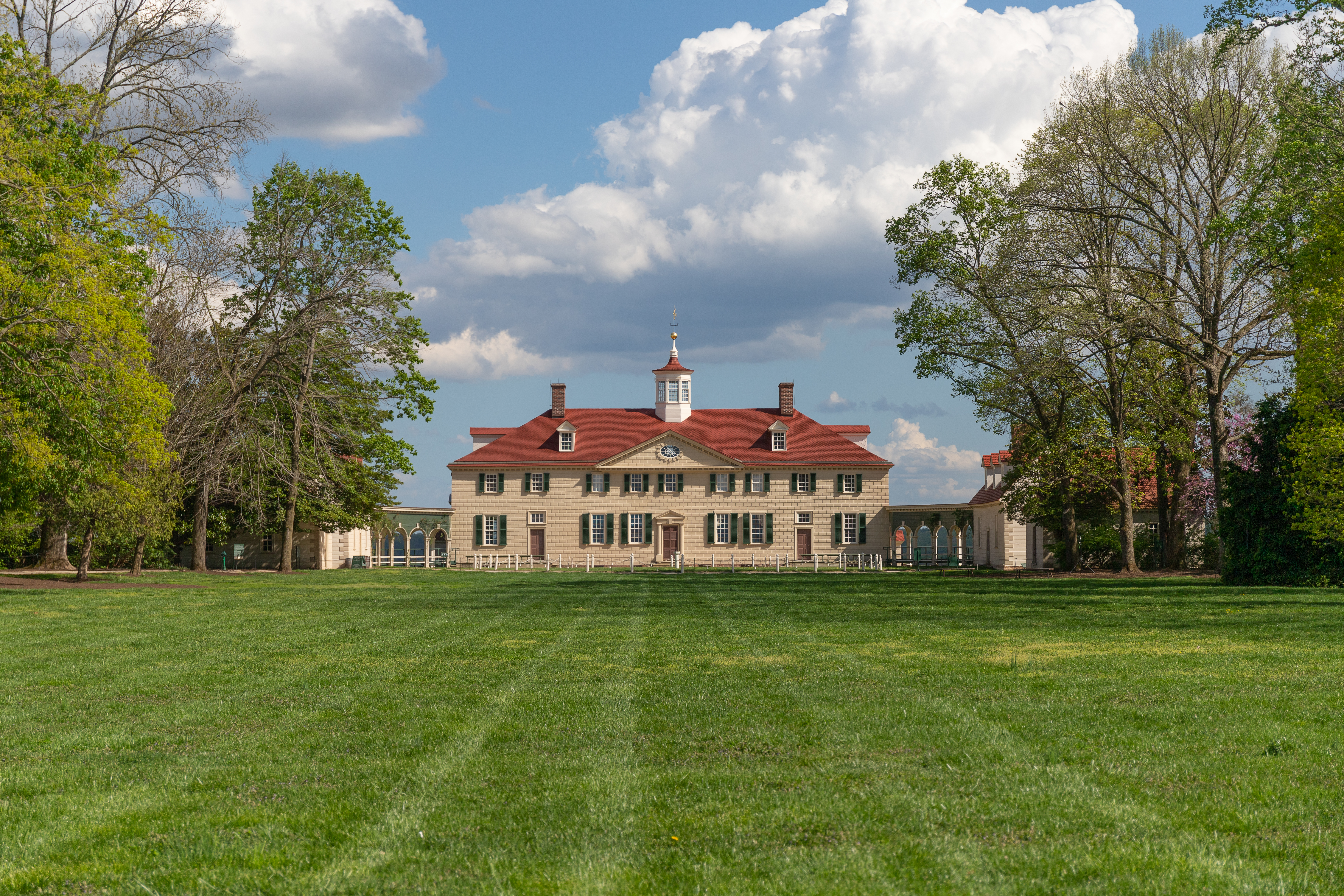 West front of the Mansion at Mount Vernon